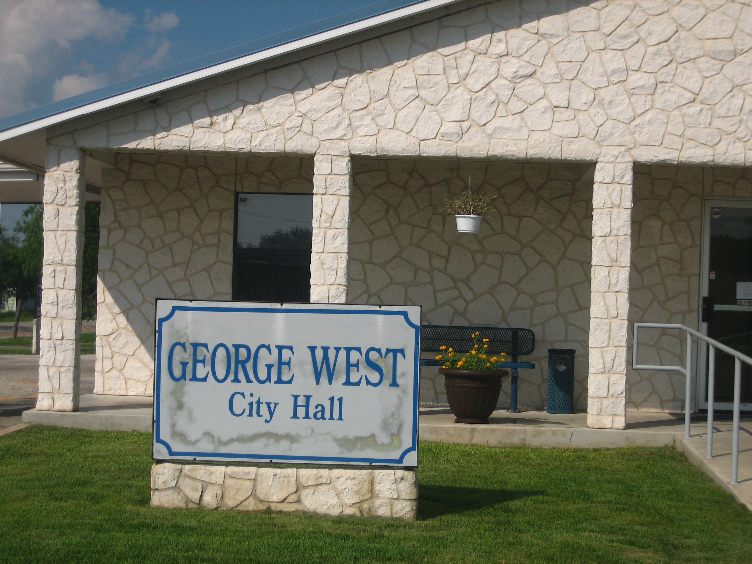 city hall of George West, Texas, with potted plants. Located at the corner of Fannon and Frio streets.